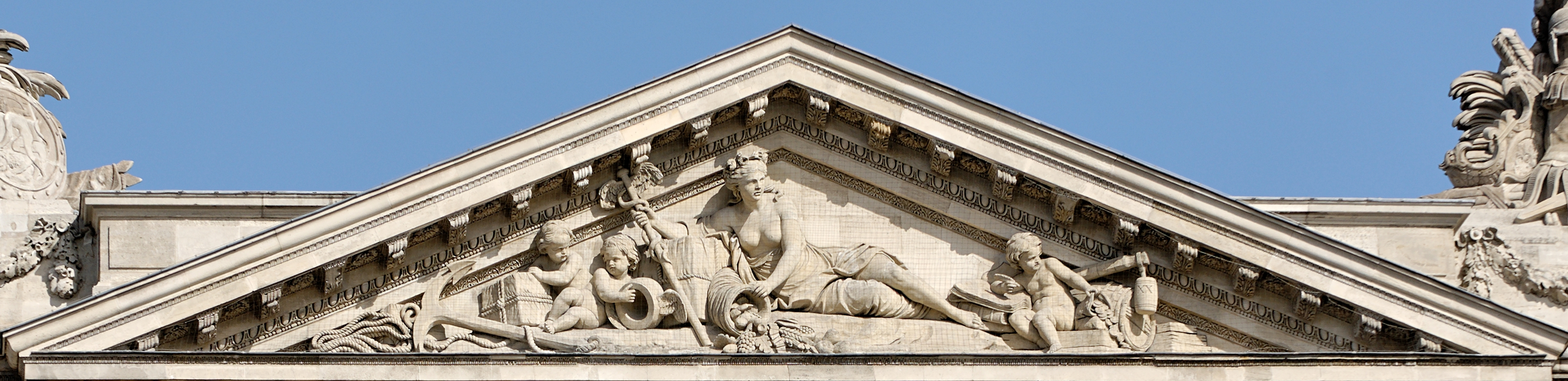 Magnificence by Guillaume Coustou the Younger and Michel-Ange Slodtz, right-hand side pediment of the Hôtel de Coislin. Place de la Concorde, 8th arrondissement of Paris.